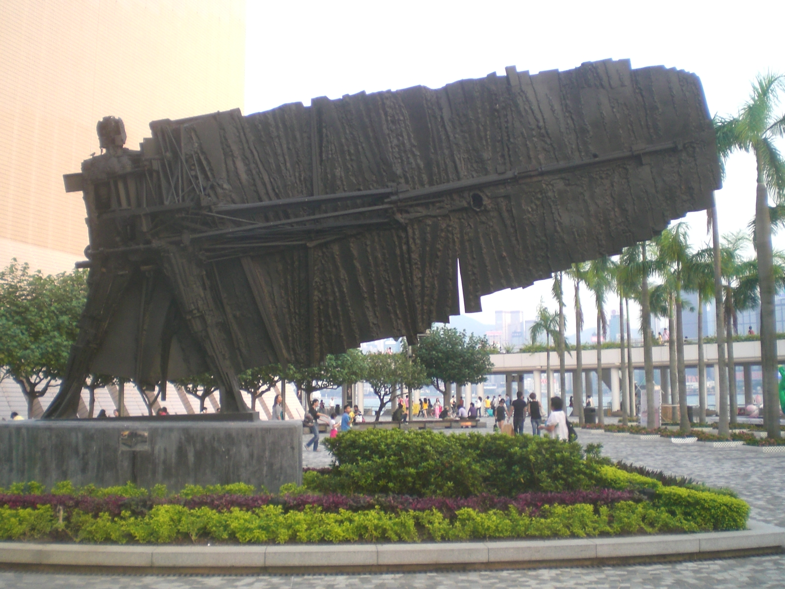 香港zh:尖沙咀